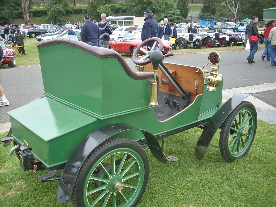 1905 Rover 6 hp open 2-seater single-cylinder 780 cc RACV Great Australian Rally 2011